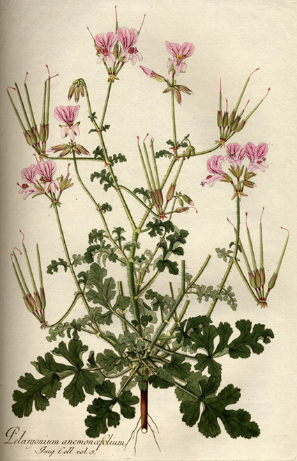 Pelargonium myrrhifolium var. myrrhifolium, as Pelargonium anemonaefolium